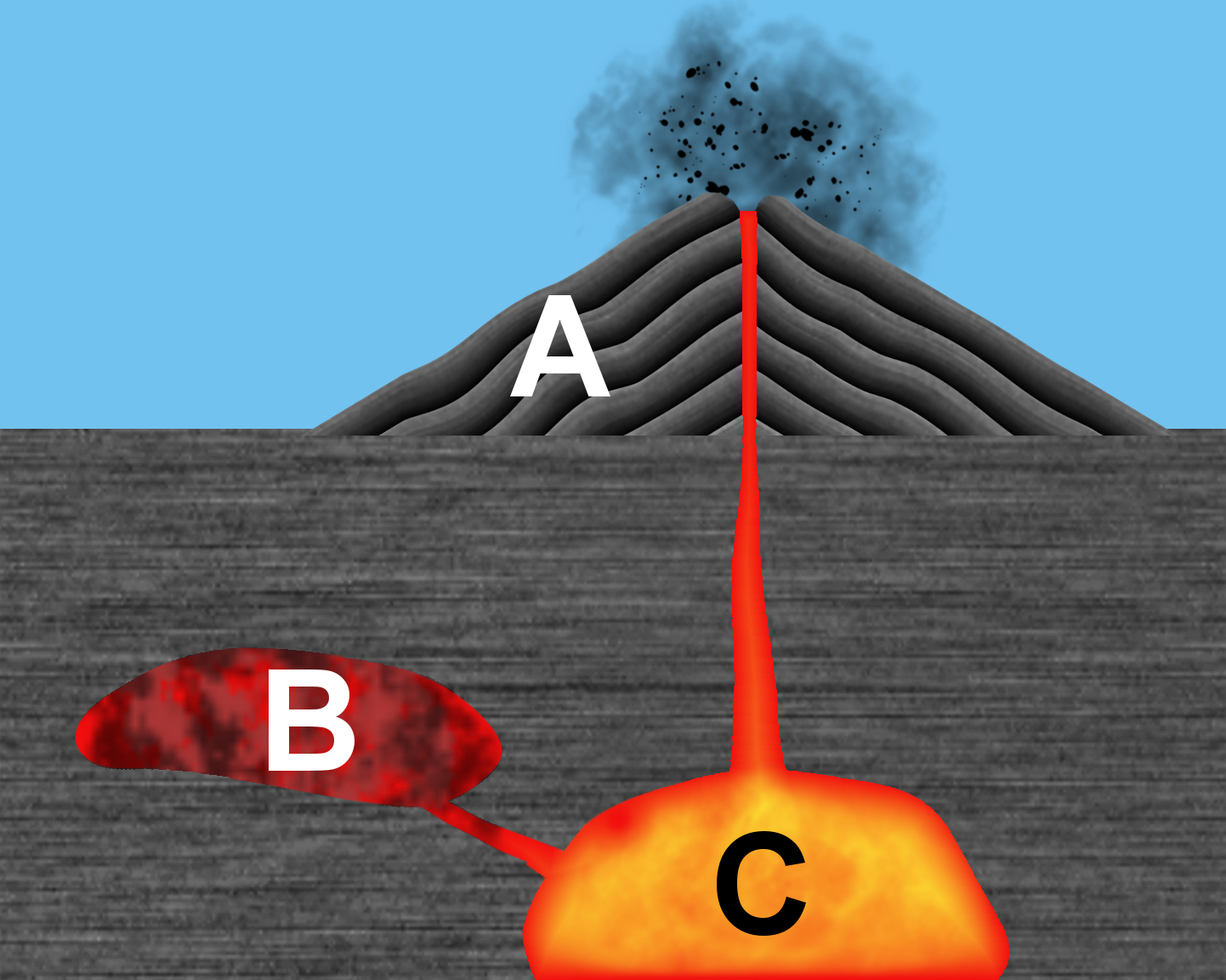 This JPG graphic was created with GIMP. Igneous rock illustration, language neutral with letters. Information for this image can be found in the book: Jorden - Illustrerat uppslagsverk/sid:80 /Förlag: Globe förlaget,2005,/ ISBN 91-7166-020-8 /Orginal title: Earth (ISBN 1-4053-0018-3)(2003 Doring Kindersley)